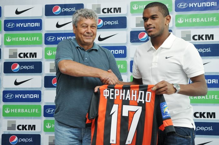 Fernando Lucas Martins